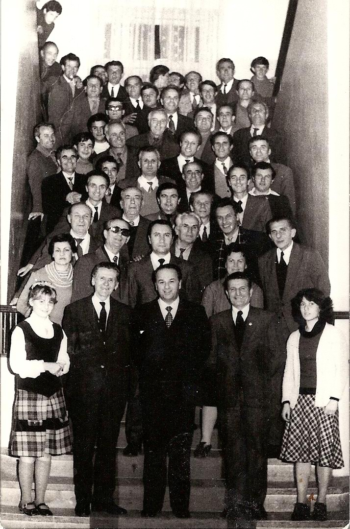 Kori Lira